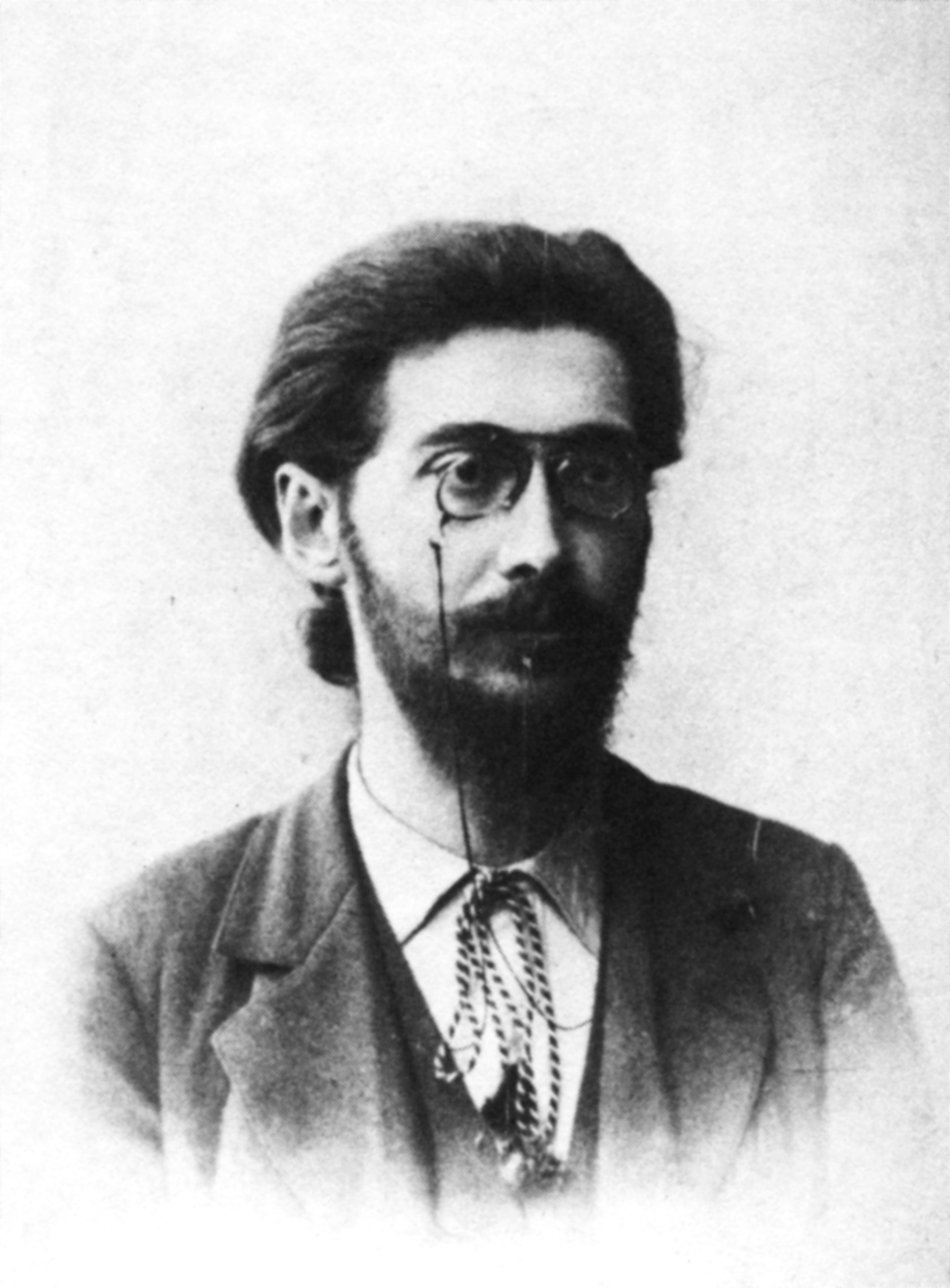 Gustav Landauer in the early 1890s.